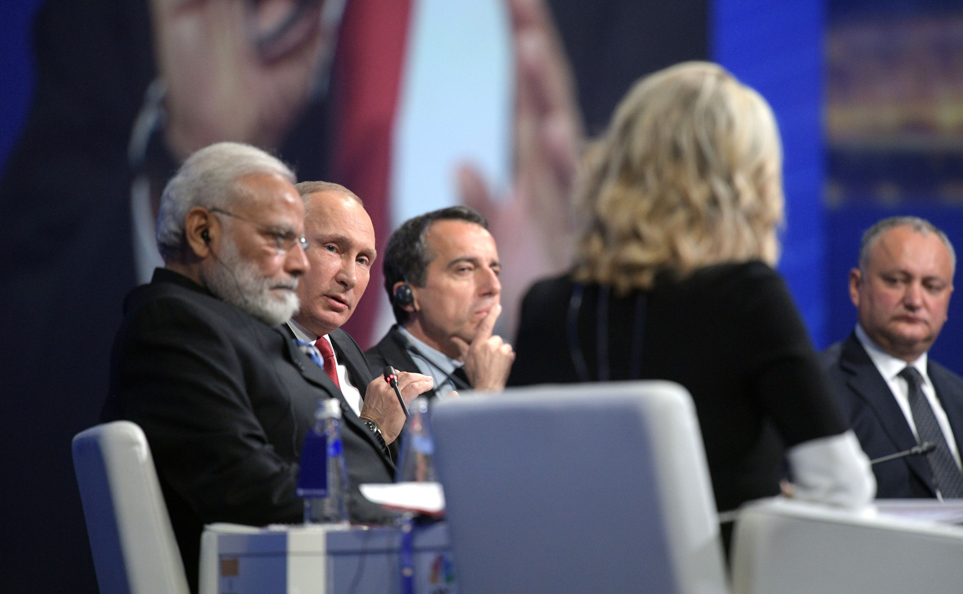 St Petersburg International Economic Forum plenary meeting